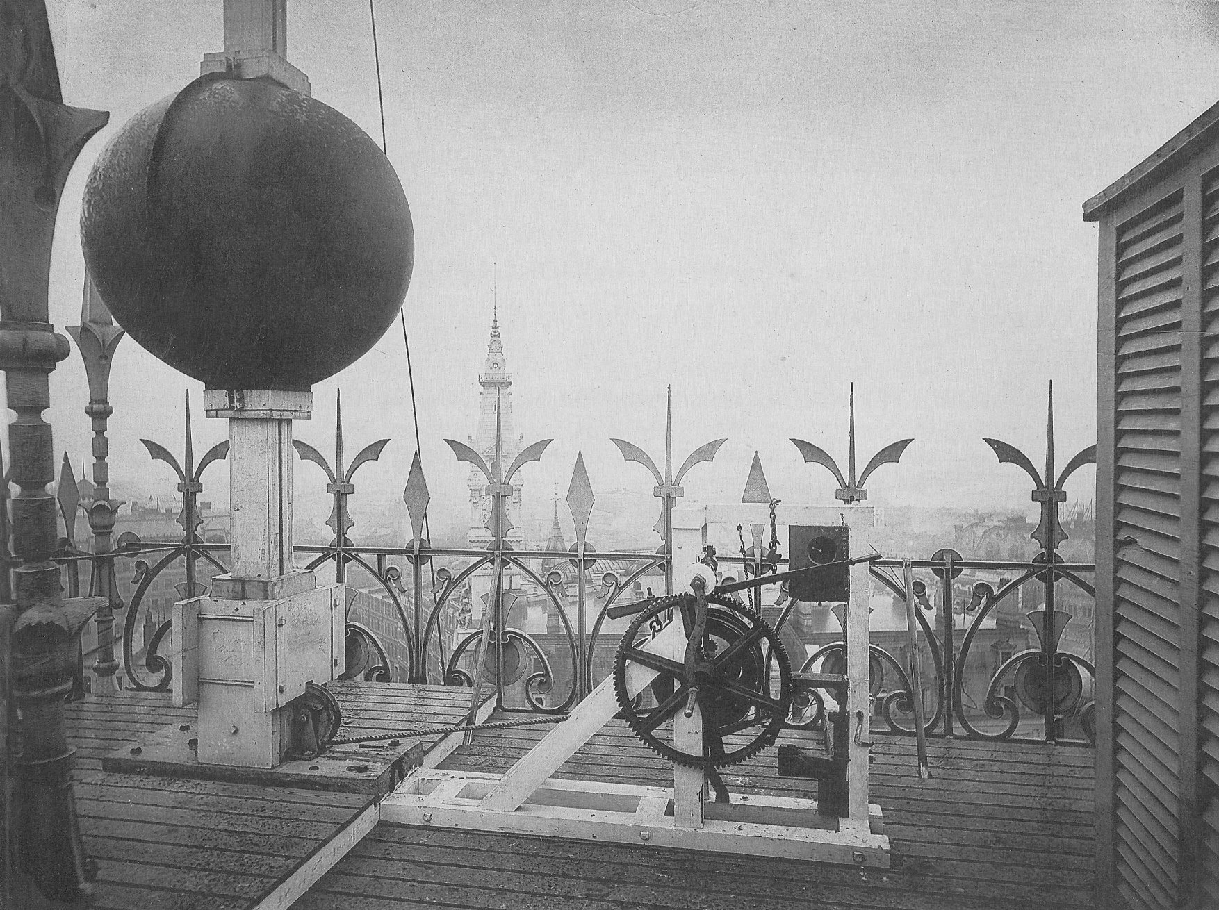 The Boston Time Ball on the roof of the Equitable Life Assurance Society building, at the corner of Devonshire and Milk Streets, Boston MA. Caption and text on image is: "Boston Time-Ball Plate No 2, Heliotype Printing Co. Boston"